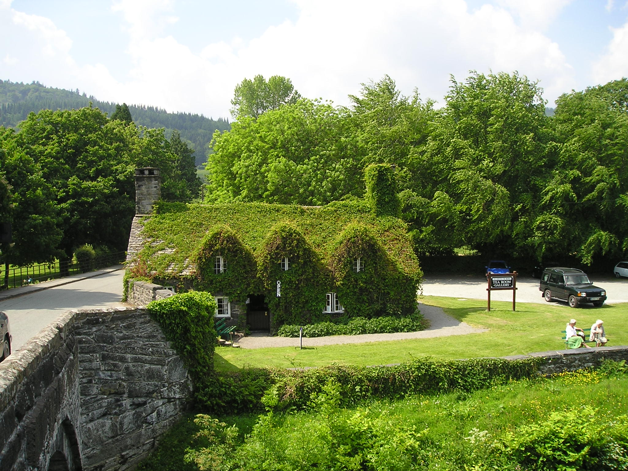 made by me Noel Walley